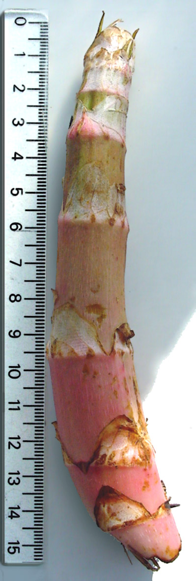 young part of Fallopia japonica